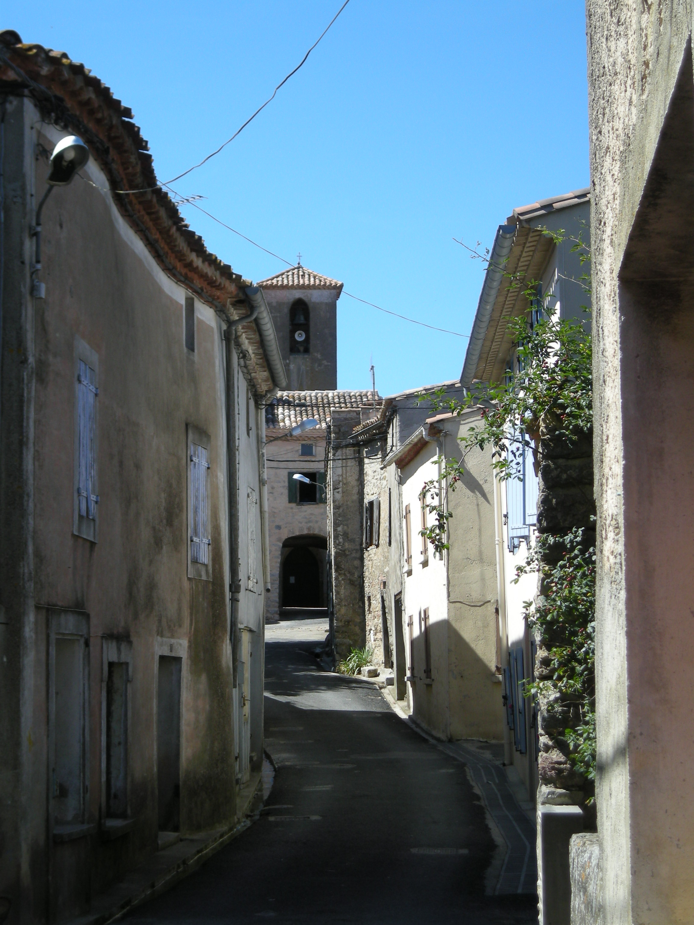 Street in Mouthoumet (Aude)